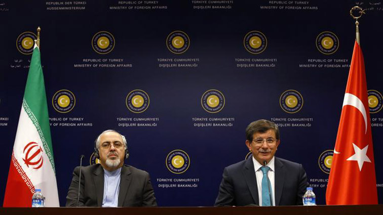 Minister of Foreign Affairs of Iran, Mohammad Javad Zarif with Turkish Foreign Minister Ahmet Davutoğlu during joint press conference in Ankara, Turkey.